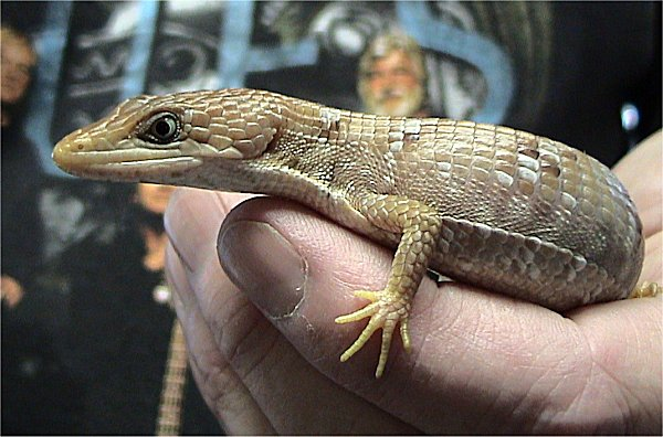 Gerrhonotus infernalis Photographer: LA Dawson Animal courtesey of Austin Reptile Service.